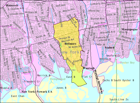 U.S. Census 2000 reference map for Bellmore